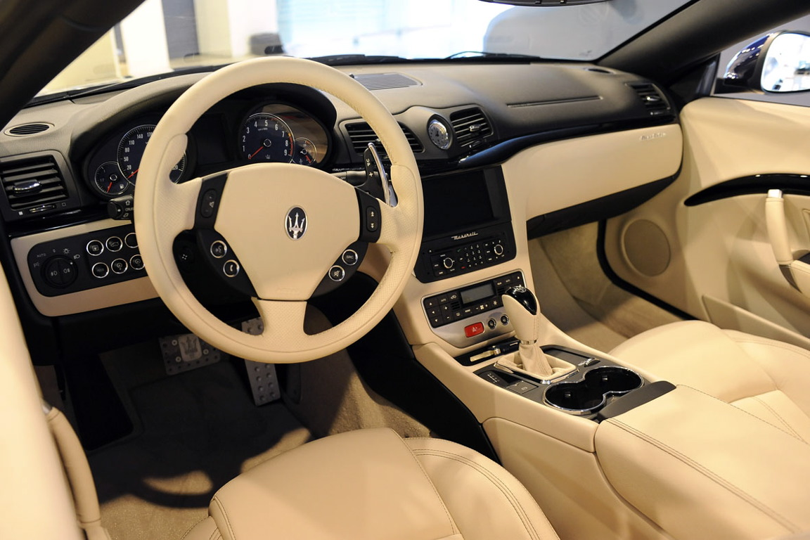 Maserati GranCabrio Interieur